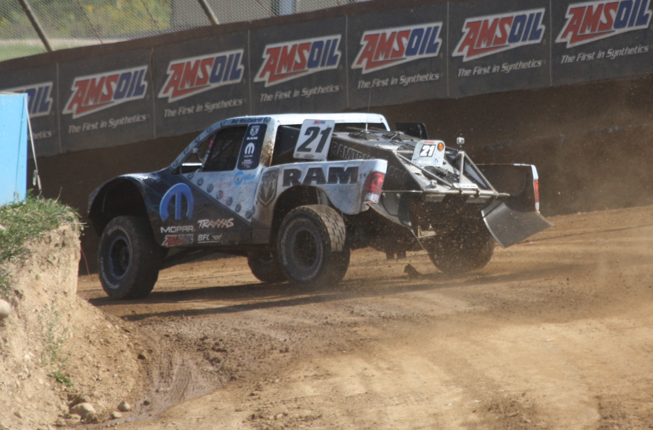 The Pro 2 winner Rob MacCachren gets his 200th career winnPikes Peak Hillclimb on display at the Crandon International Off-Road Raceway. The car was driven by Chad Hord.